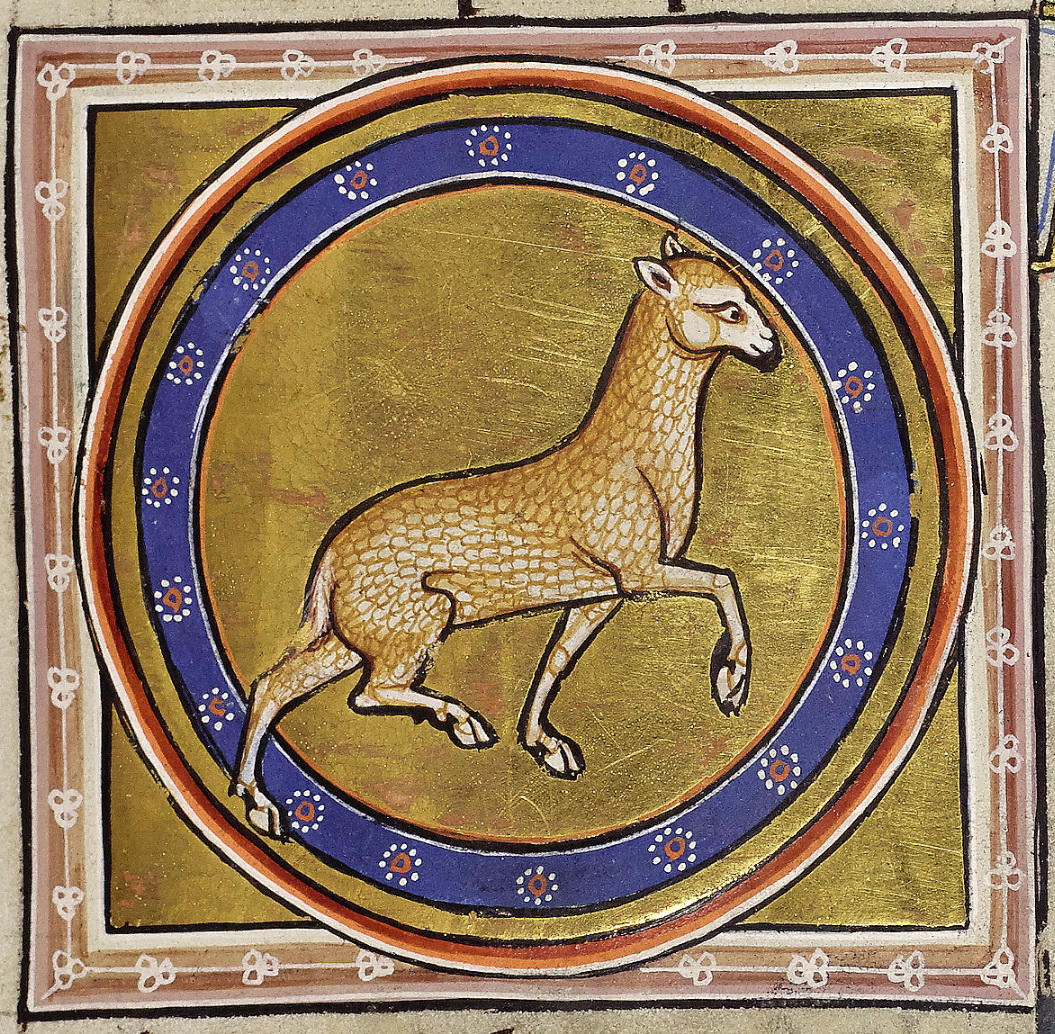 Aberdeen University Library, Univ. Lib. MS 24, The Aberdeen Bestiary, Folio 21r : Lamb, England, ca. 1200.